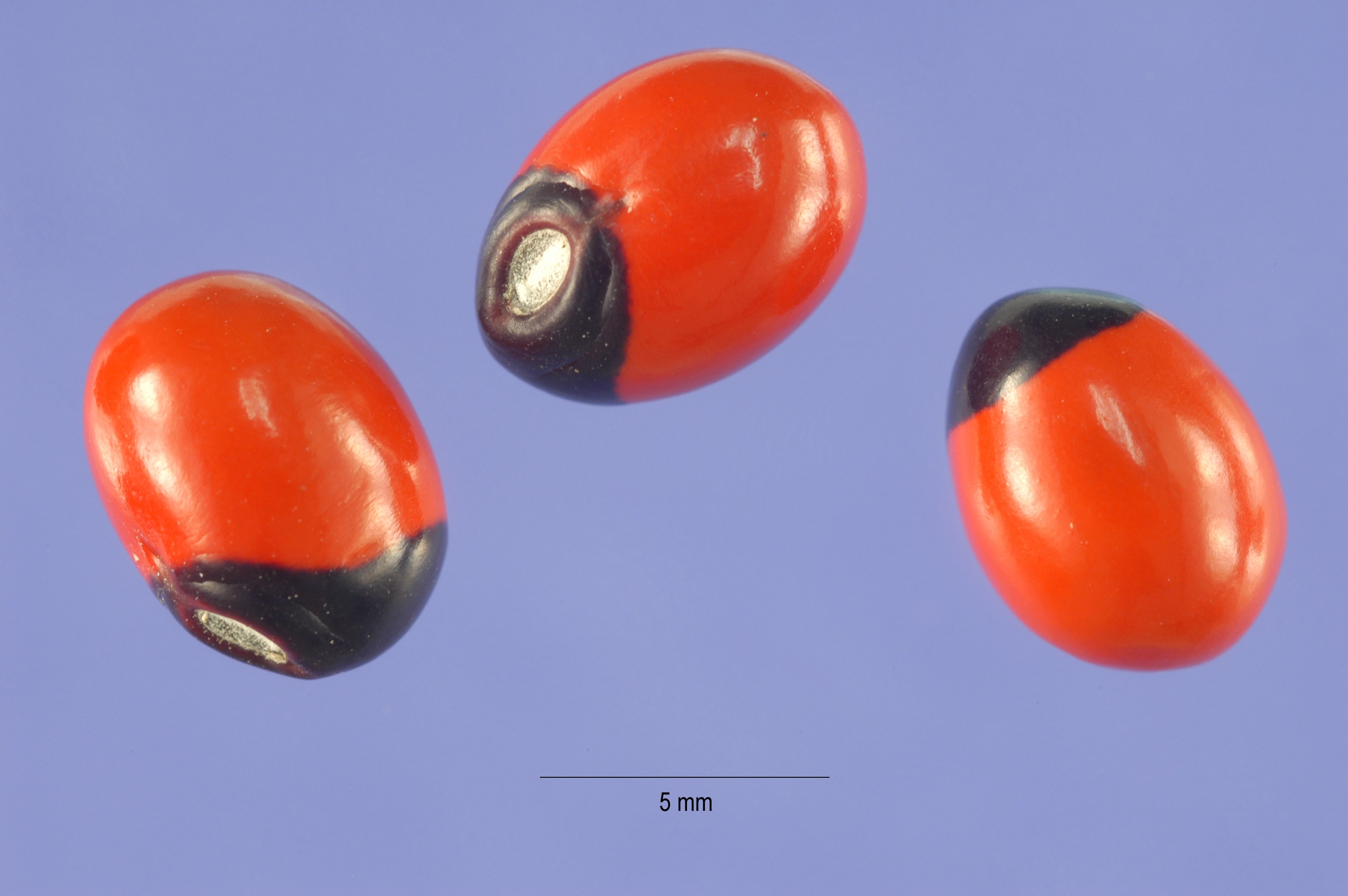 Rosary Pea. Seeds.